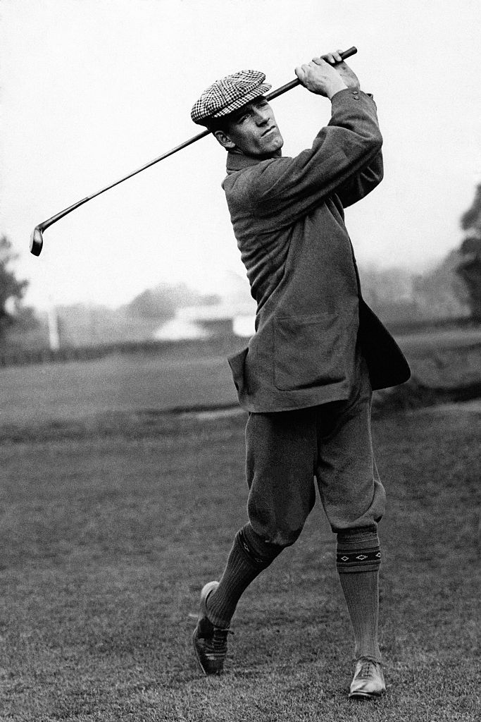 Scottish golfer George Duncan completing a golf swing, on golf course; wearing a houndstooth cap, jacket and knickers.